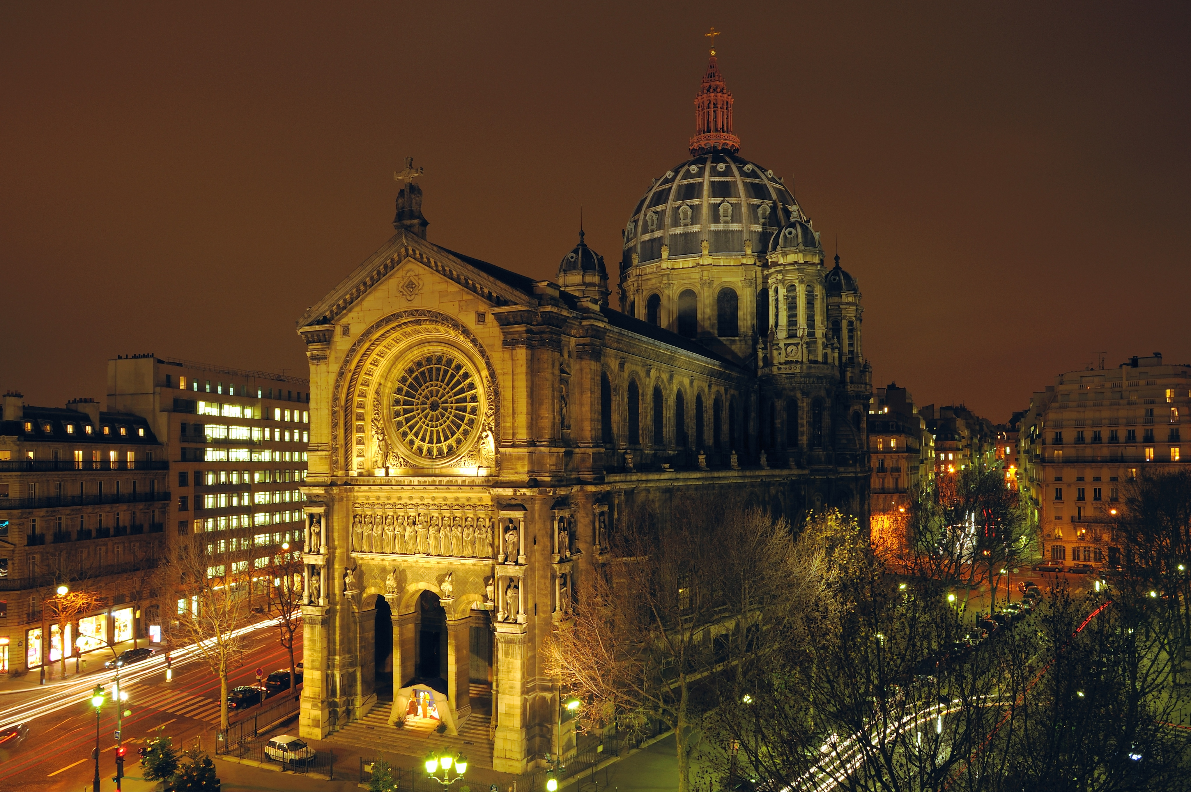 St Augustin (Paris) at night.